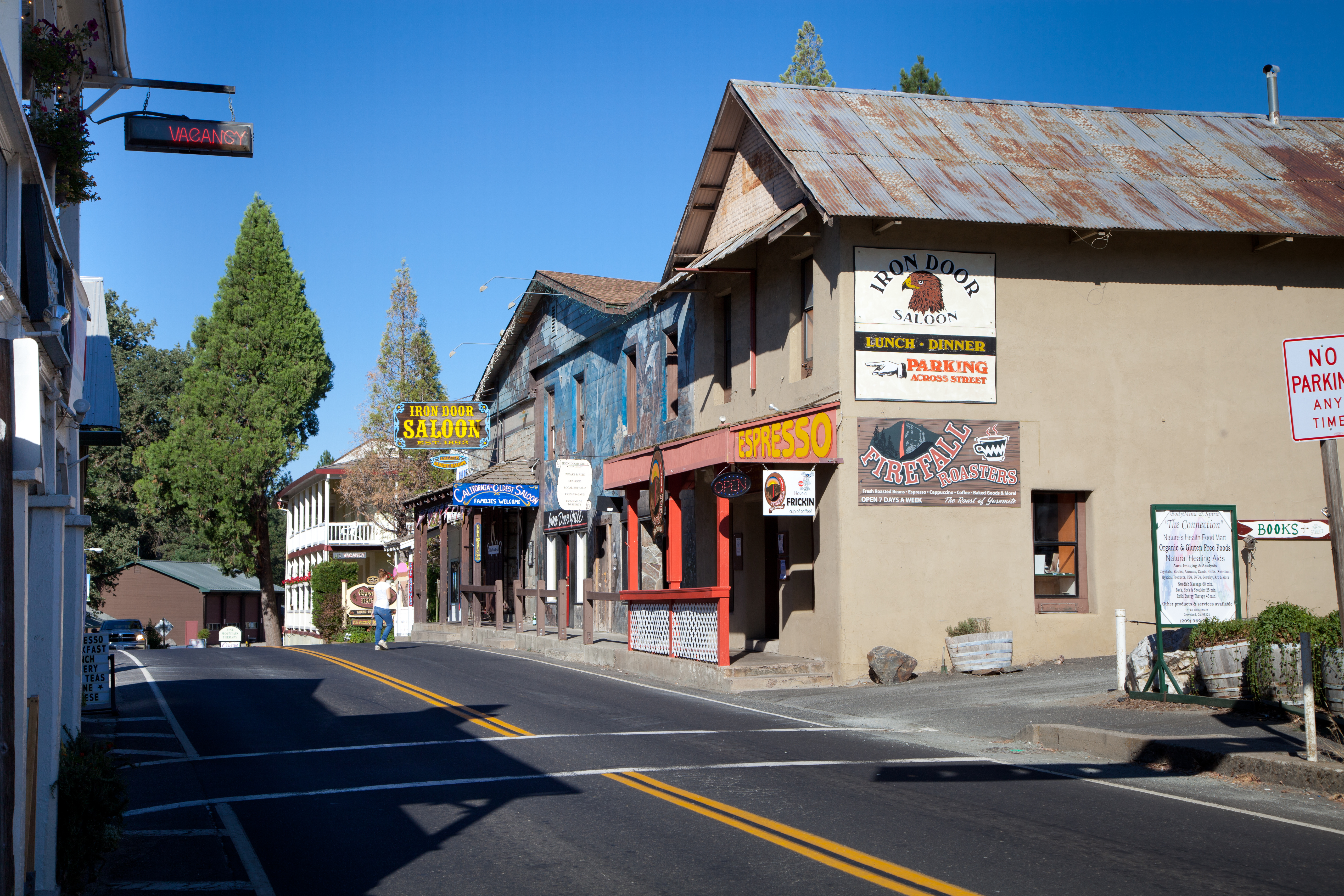 Groveland